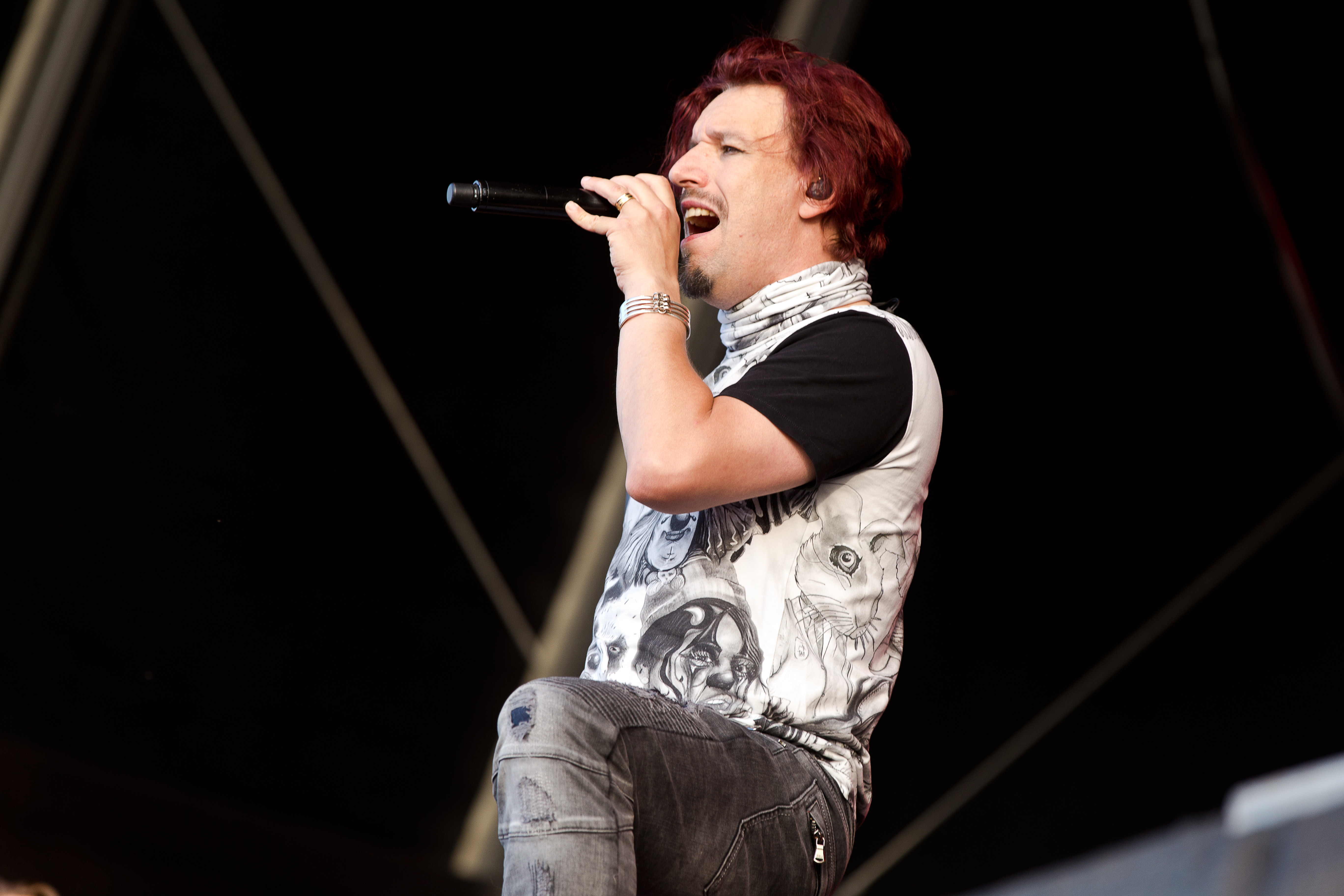 The Finnish power metal band Sonata Arctica at the Rockharz Open Air 2016 in Ballenstedt/Germany.